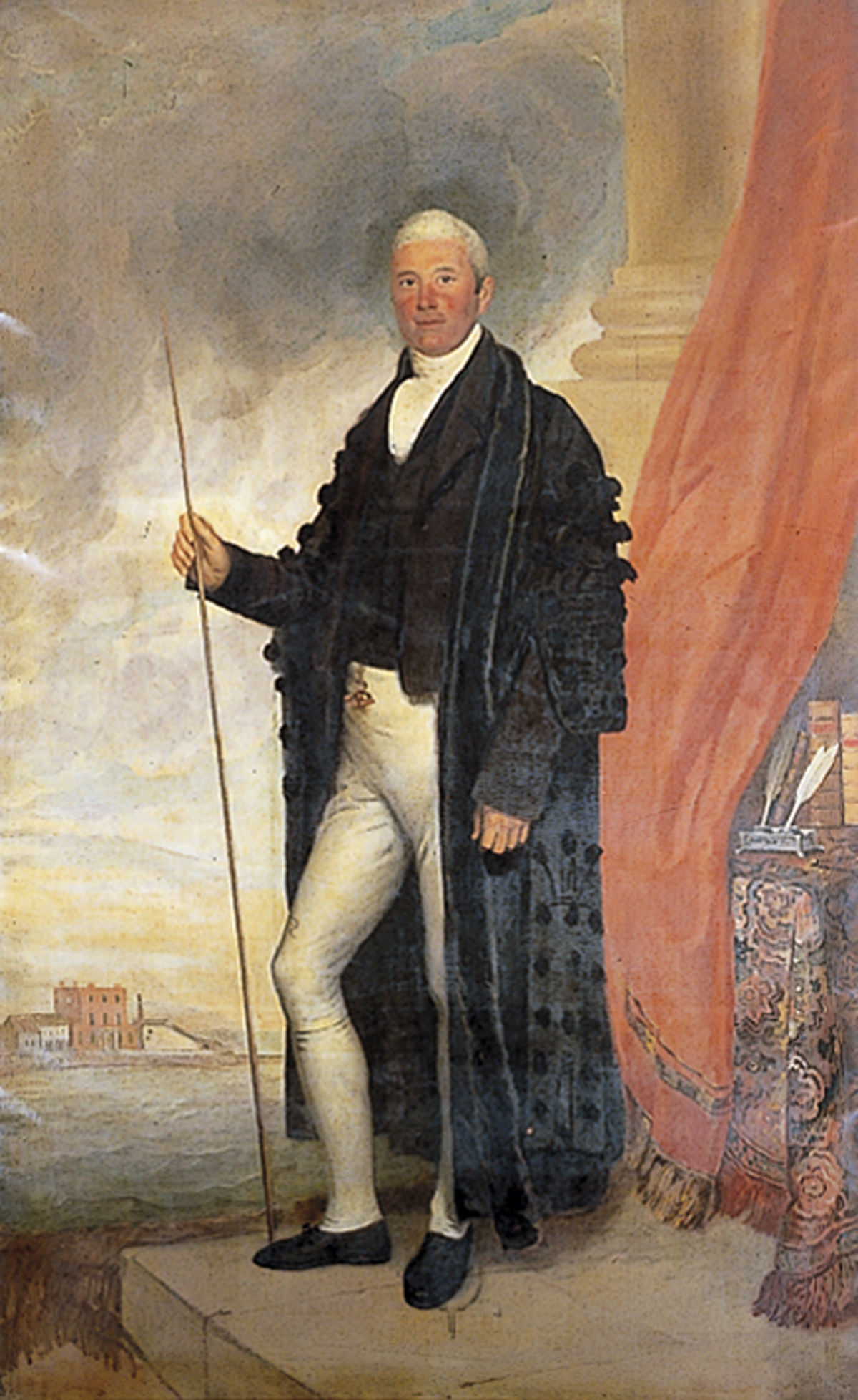 Thomas Young Greet 1829), Mayor of Queenborough. Painting owned by Swale Borough Council. A newspaper report of 1829 records how his death sparked wild scenes of celebration amongst the local population. For example "In the public houses the general feeling was exhibited without restraint" is written. The paper then goes on to state that it was reported that in the week that he died "810 people in the borough were in the most wretched and desperate condition."